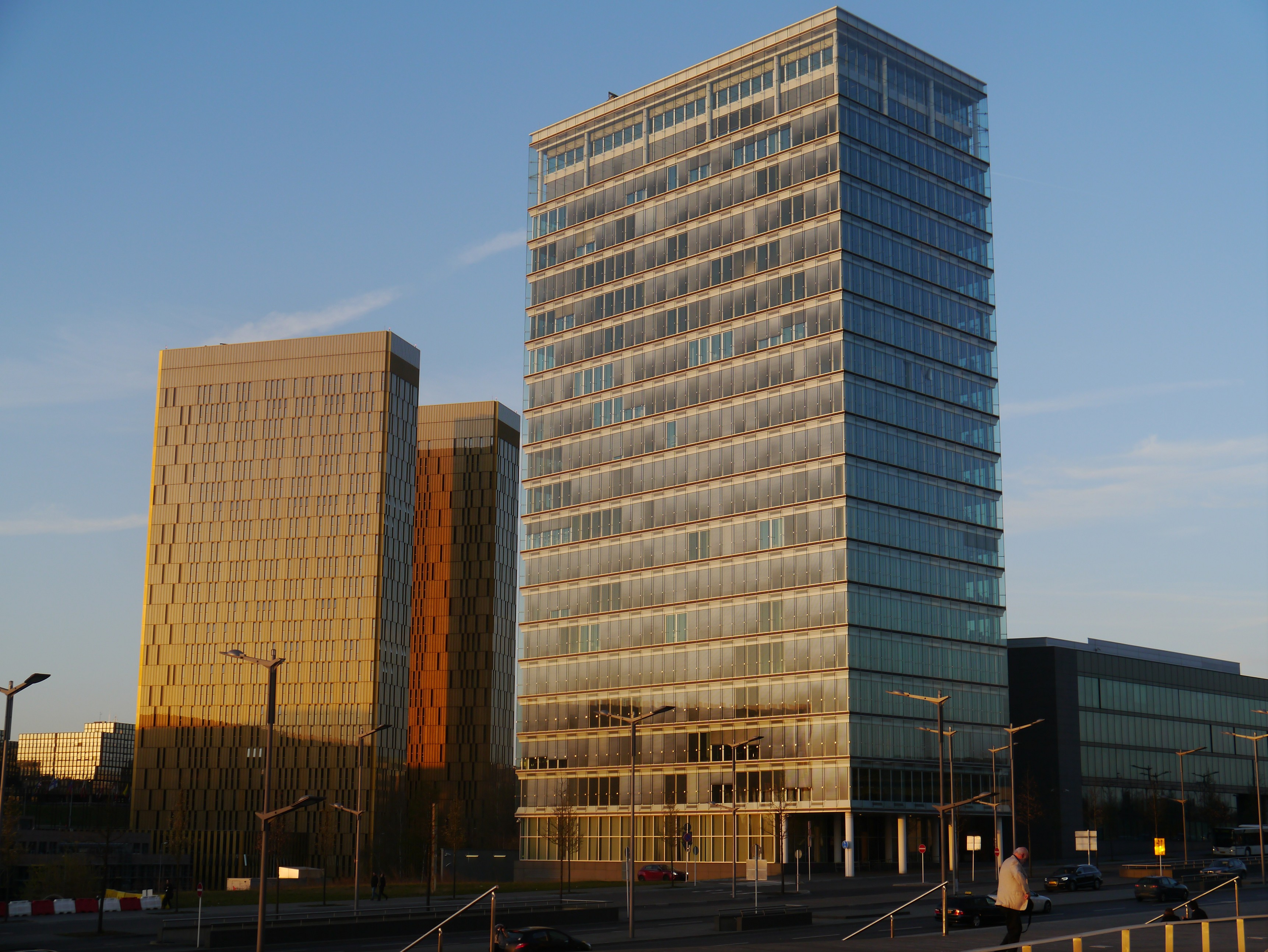 European Quarter, Luxembourg